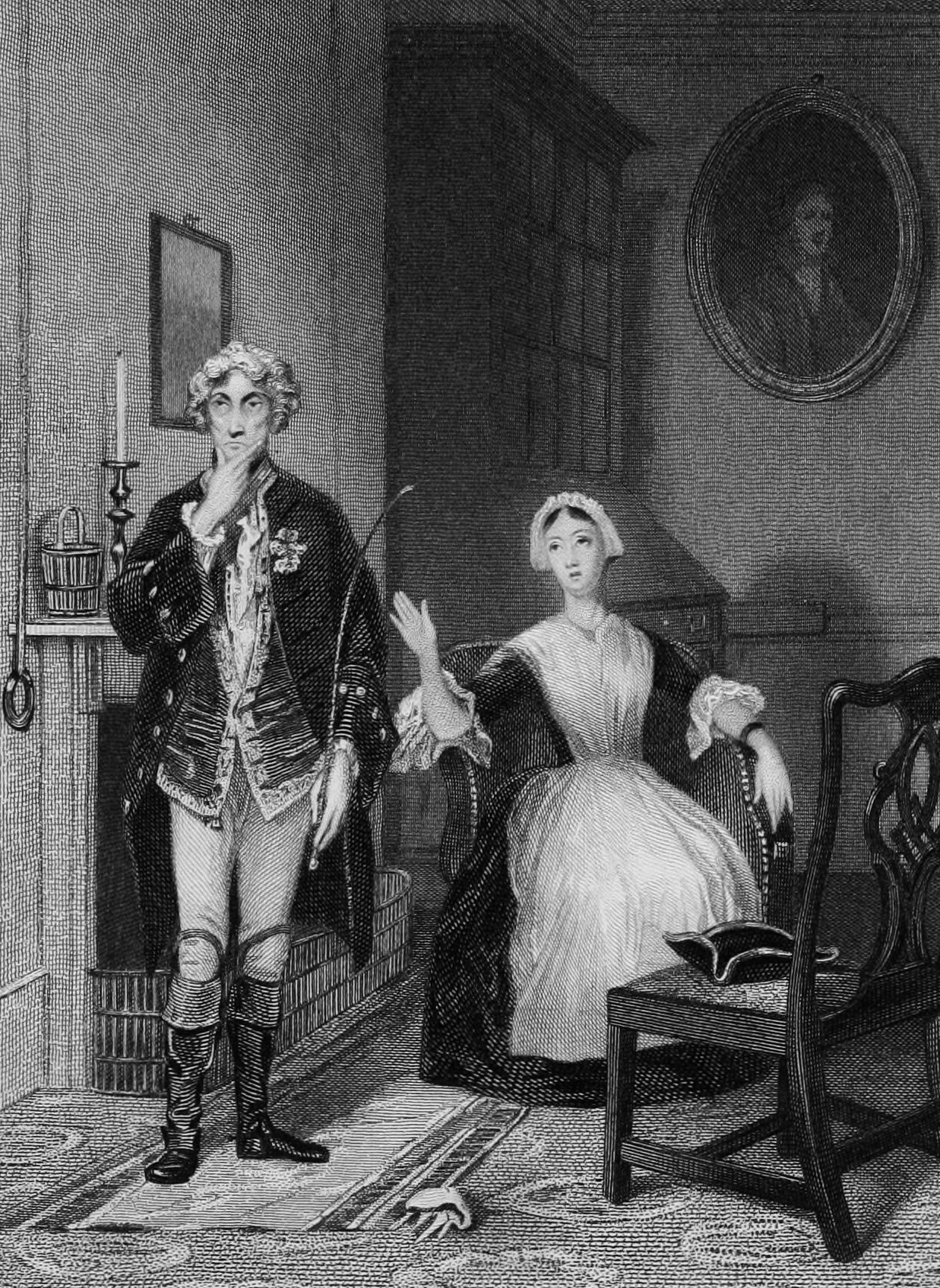 Illustration of Abel Keene from The Borough" letter 12, by George Crabbe